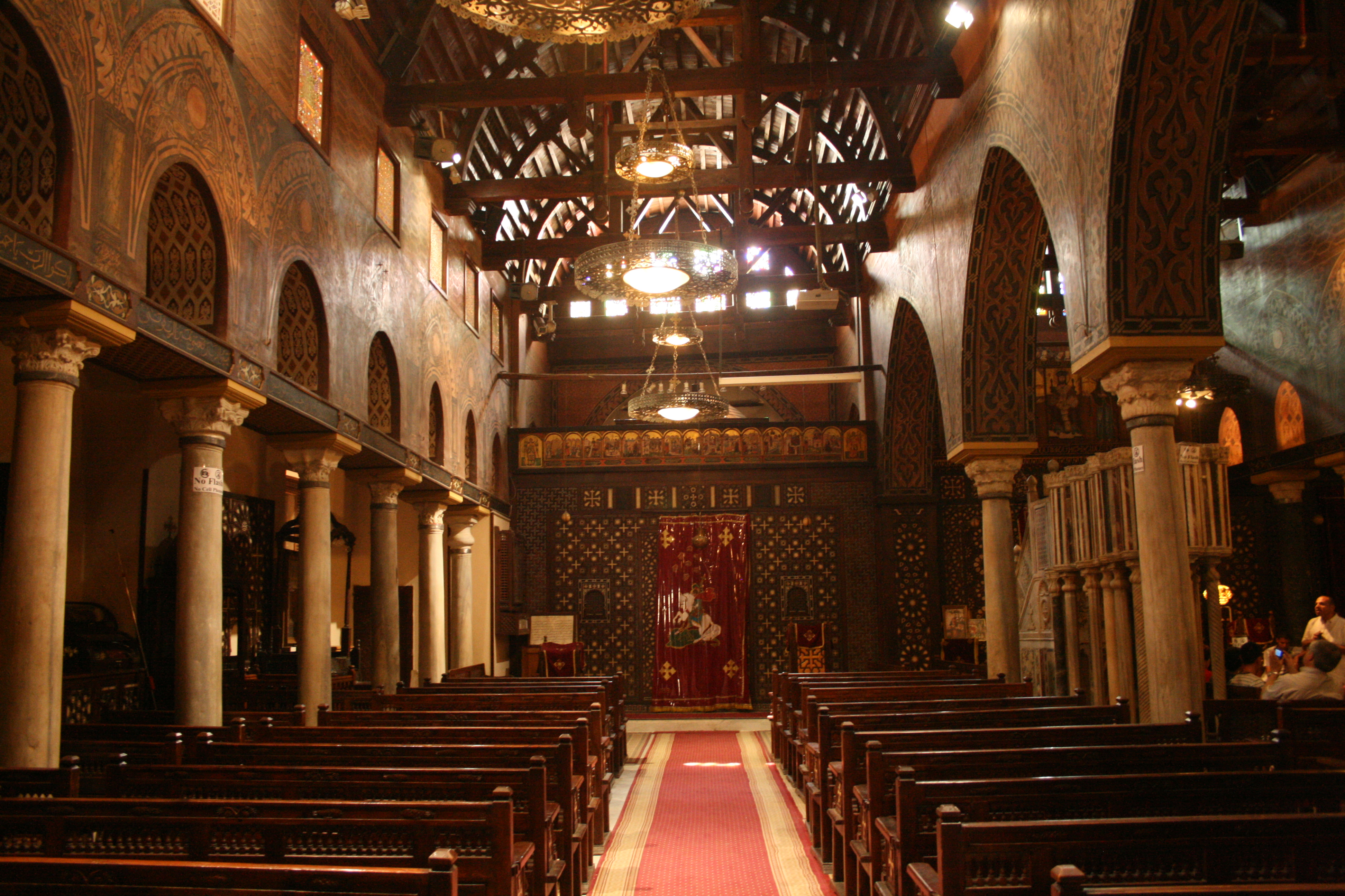 Hanging Church, Old Cairo, Egypt